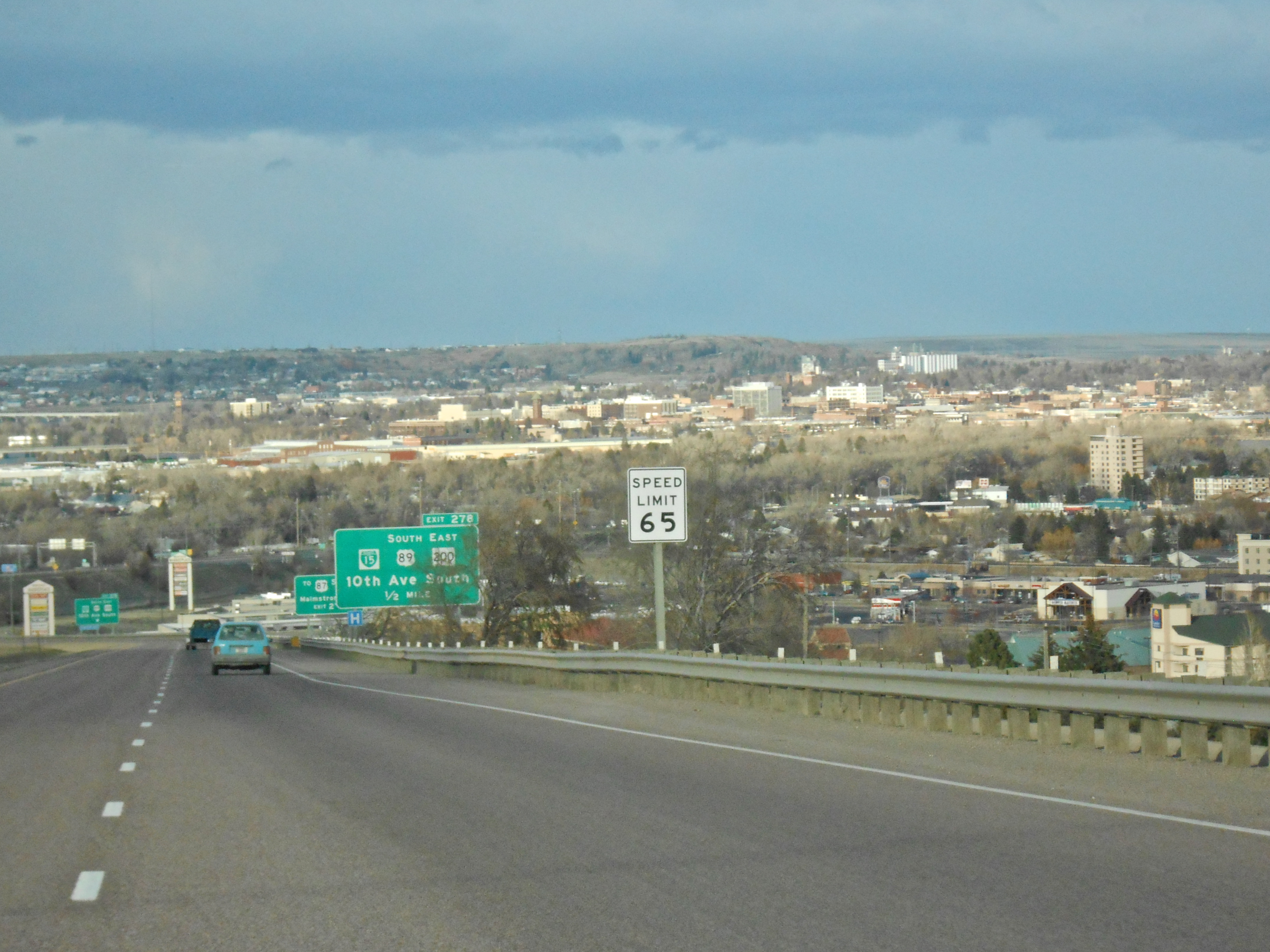 Overview of Great Falls, Montana as seen from Interstate 15